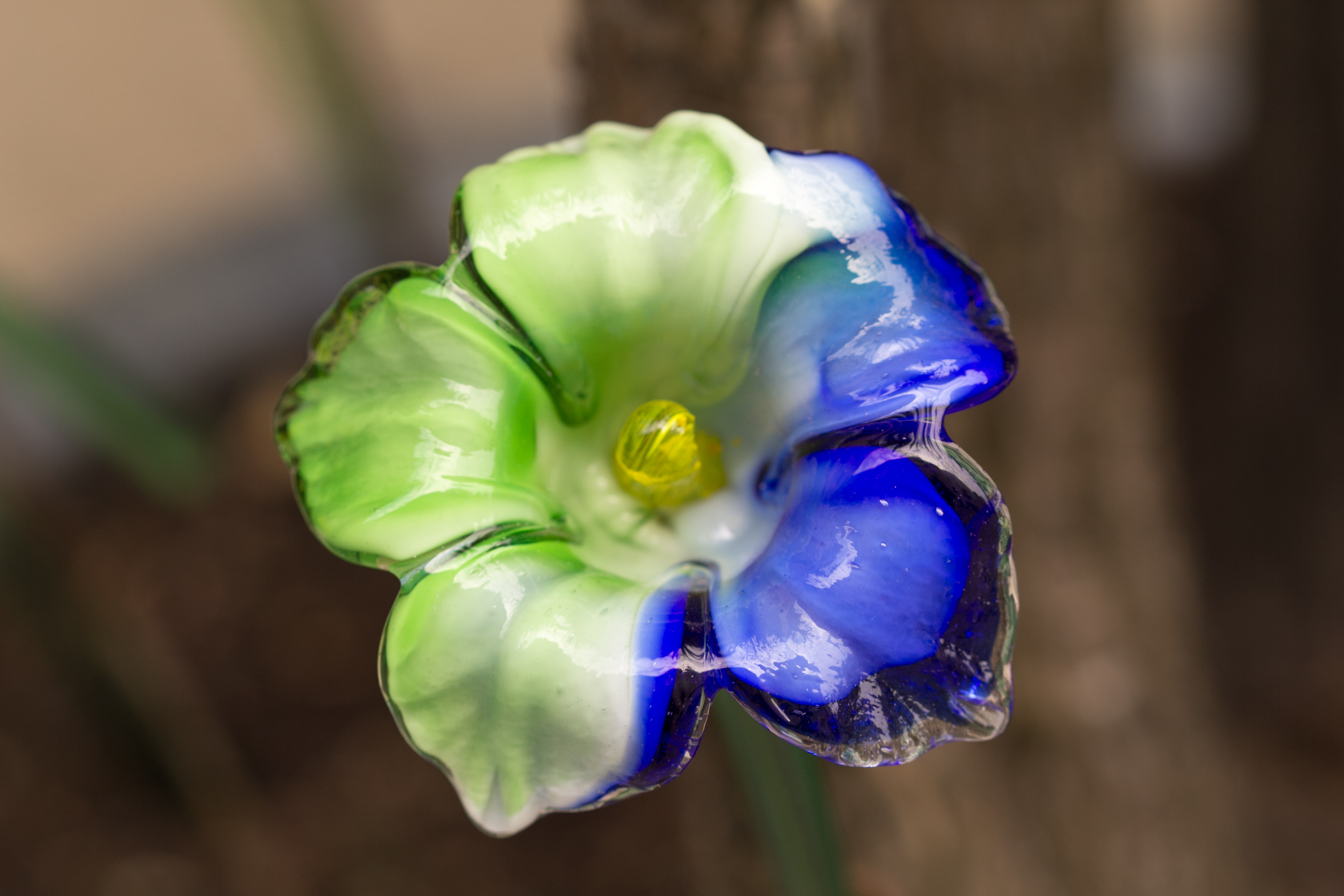 Glassware in Rattenberg (Tyrol). Rattenberg is known for his glass art, especially lead crystal.